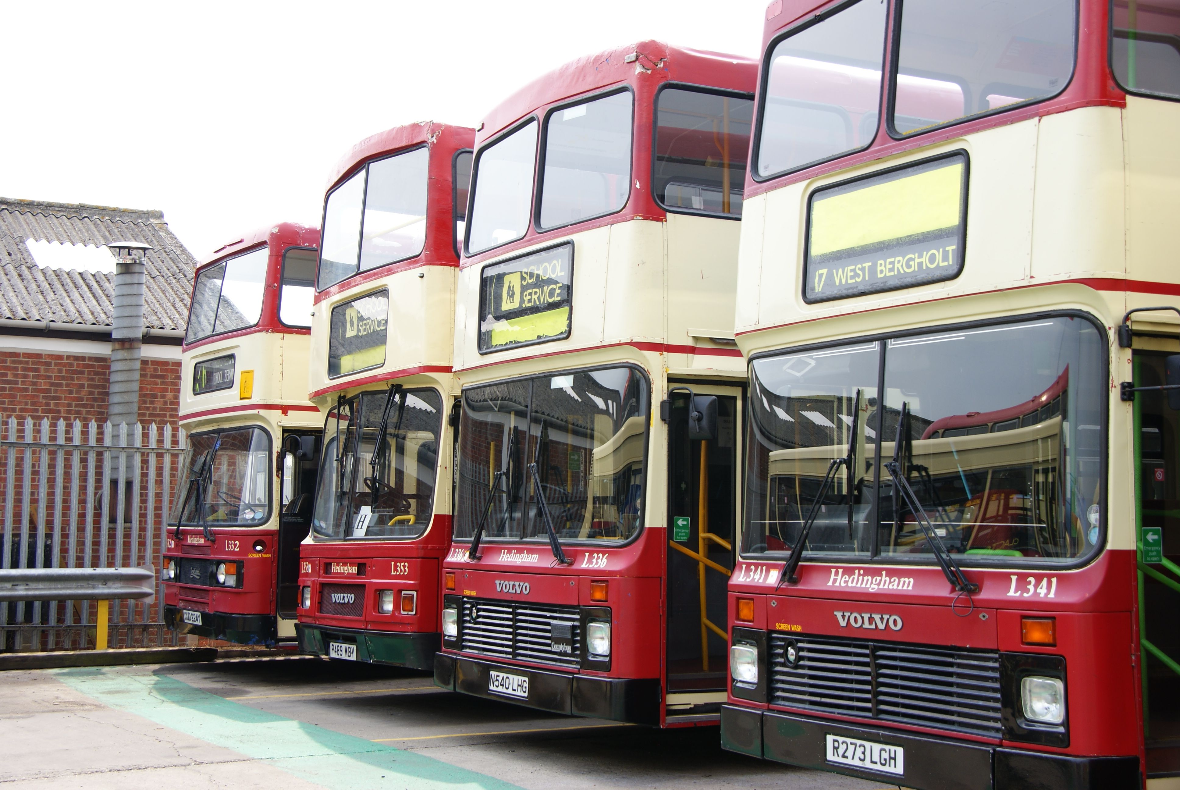 HEDINGHAM DECKERS-5 060610 CPS